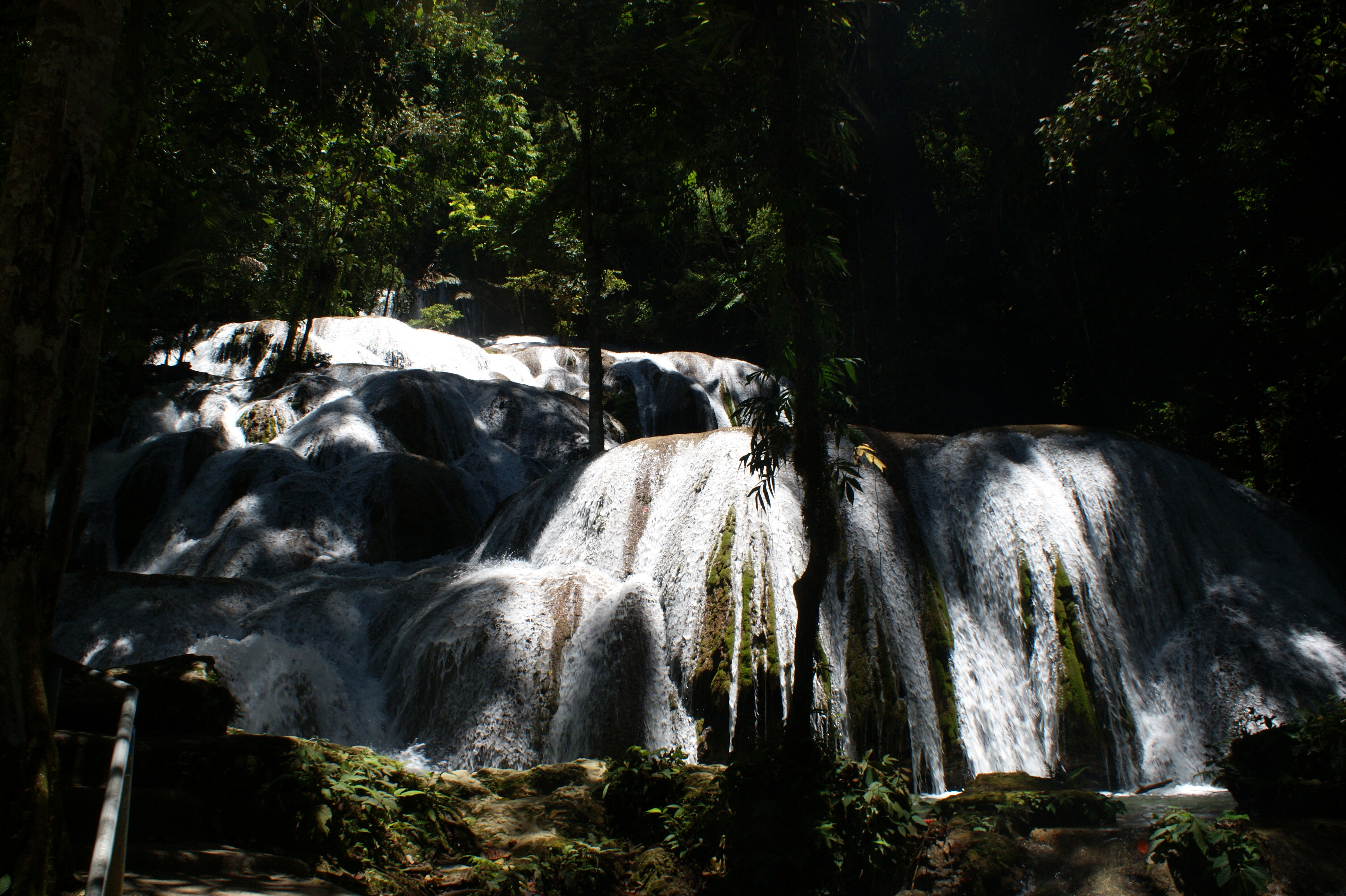 Saluopu Waterfalls near Tentena